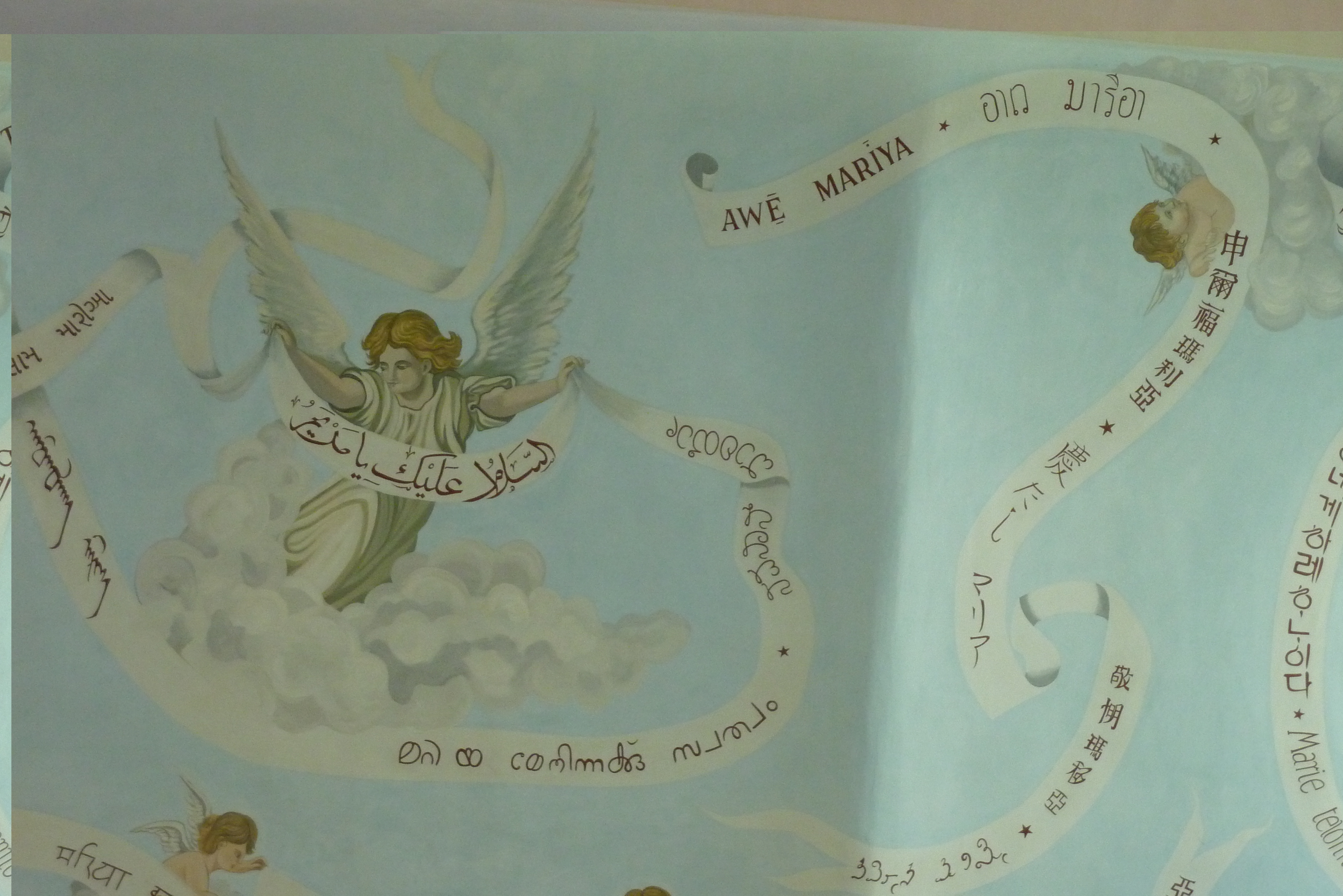 Israel, Deir Rafat, Ave Maria